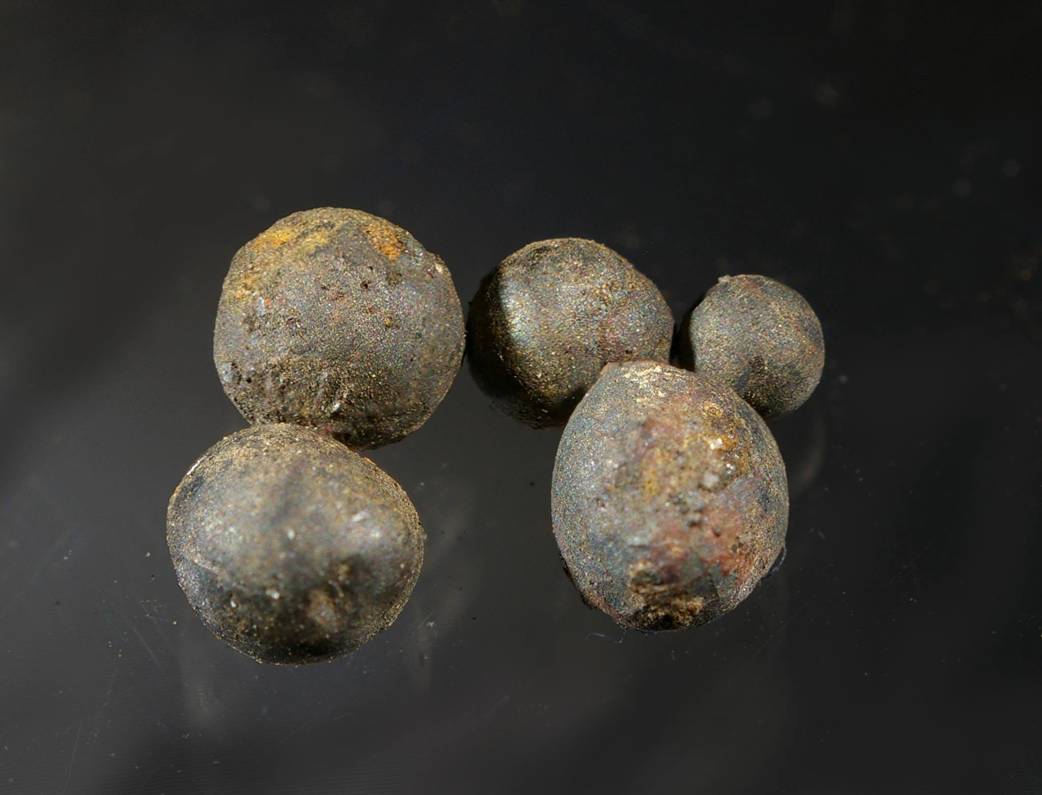 Hammerscale, slag droplets produced during forging of iron, from a monastic site at Aghmanister, Co. Cork. 13th to 14th century AD